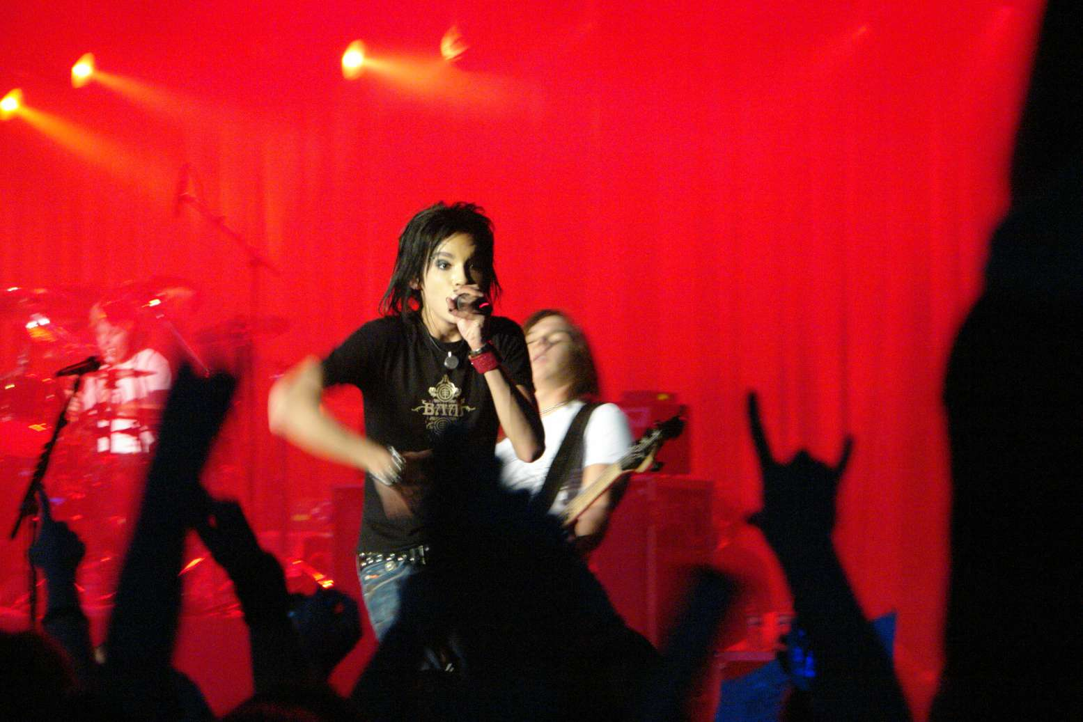 Bill Kaulitz of Tokio Hotel performing in Dietikon, Switzerland. 2006 by Pascal Parvex, (released into GFDL: info)